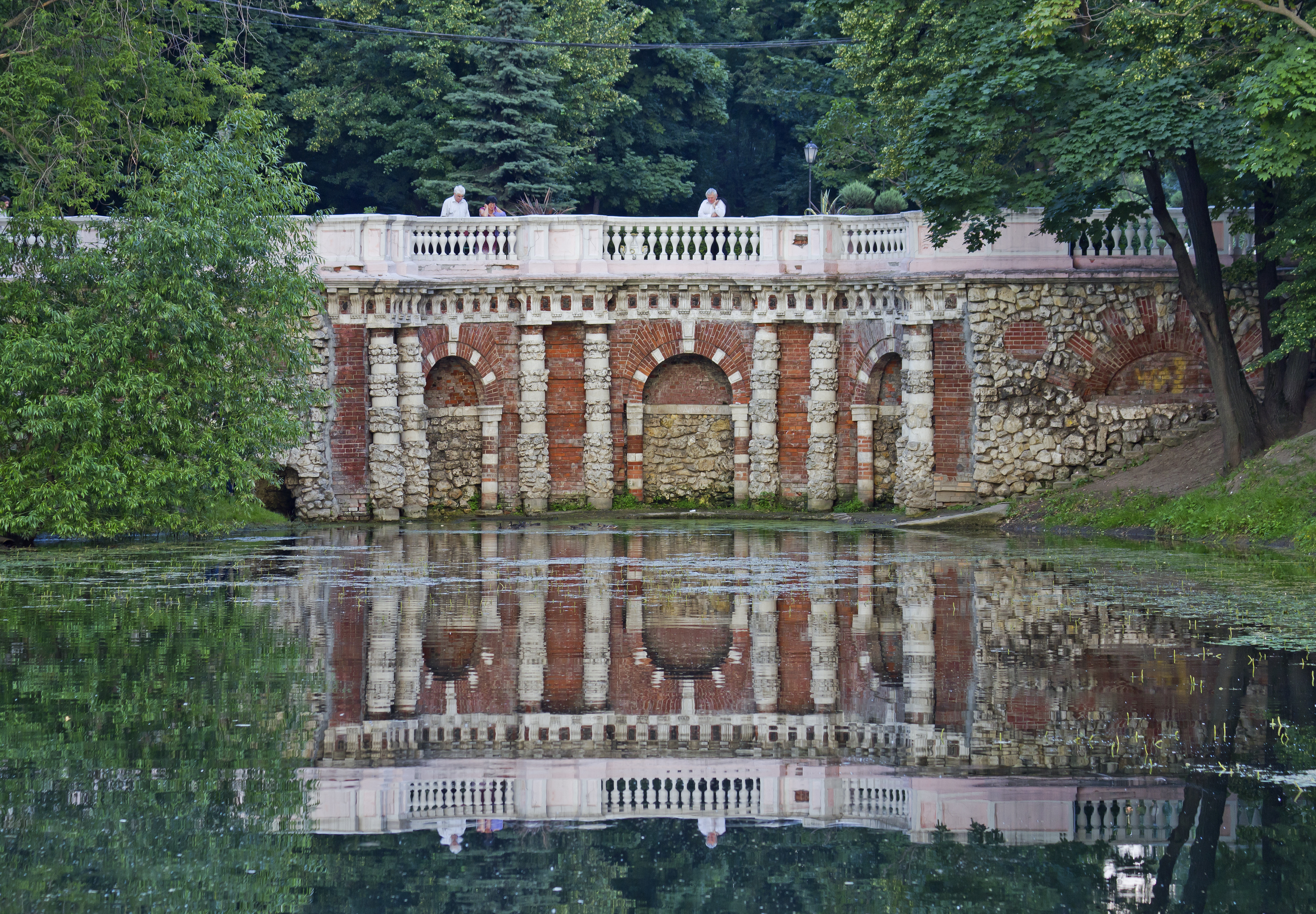 Rastrelli Grotto in Lefortovo Park, Moscow